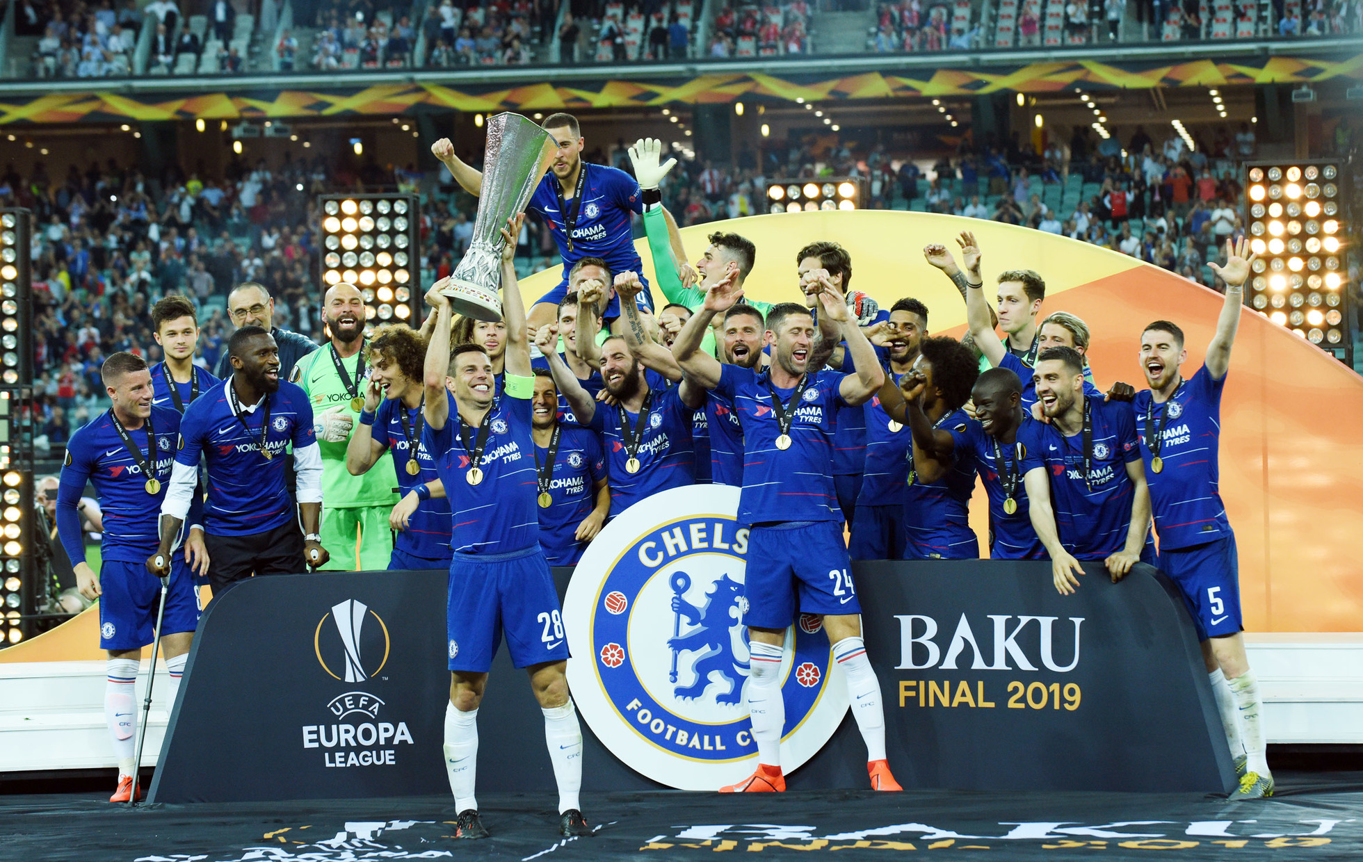 Chelsea won UEFA Europa League final at Olympic Stadium and President Ilham Aliyev watched the final match